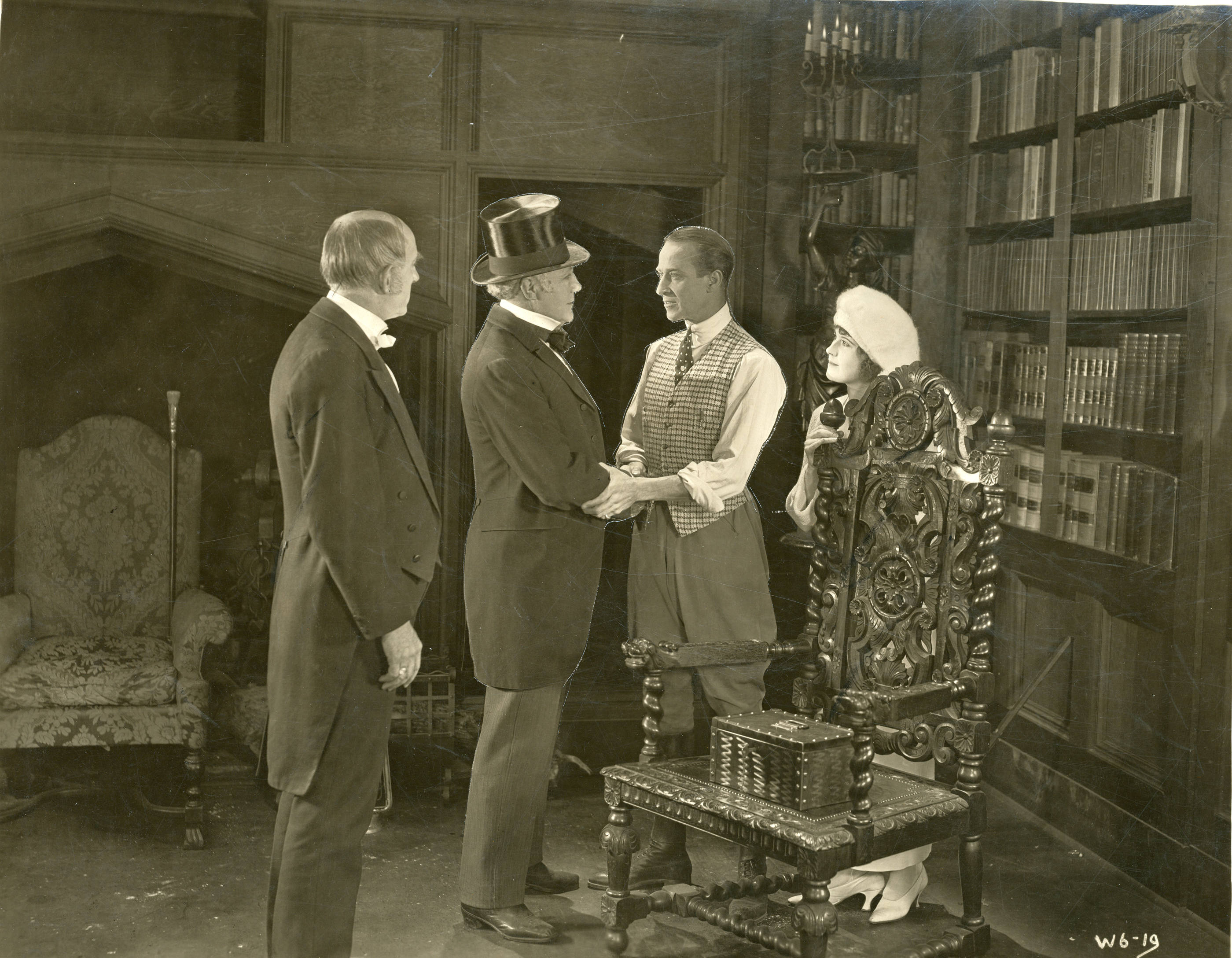 A scene from the American comedy drama film Haunting Shadows which played at the Colonial Theater, Seattle. Includes H. B. Warner. Date stamped Mar. 25, 1920. Subjects: motion pictures, actors